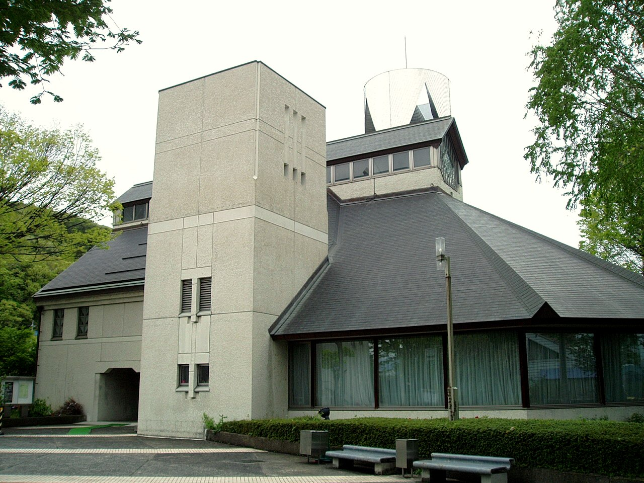 The Yuji Koseki Memorial, located in Irie-cho, Fukushima, Fukushima Prefecture, Japan.